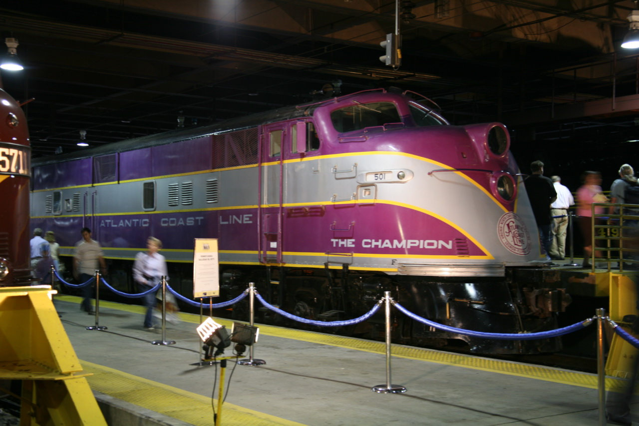 This E3 was one of the first high production models. The ACL ordered two, numbered 500 and 501, for service on the Champion between New York City and Miami, Florida. [1]